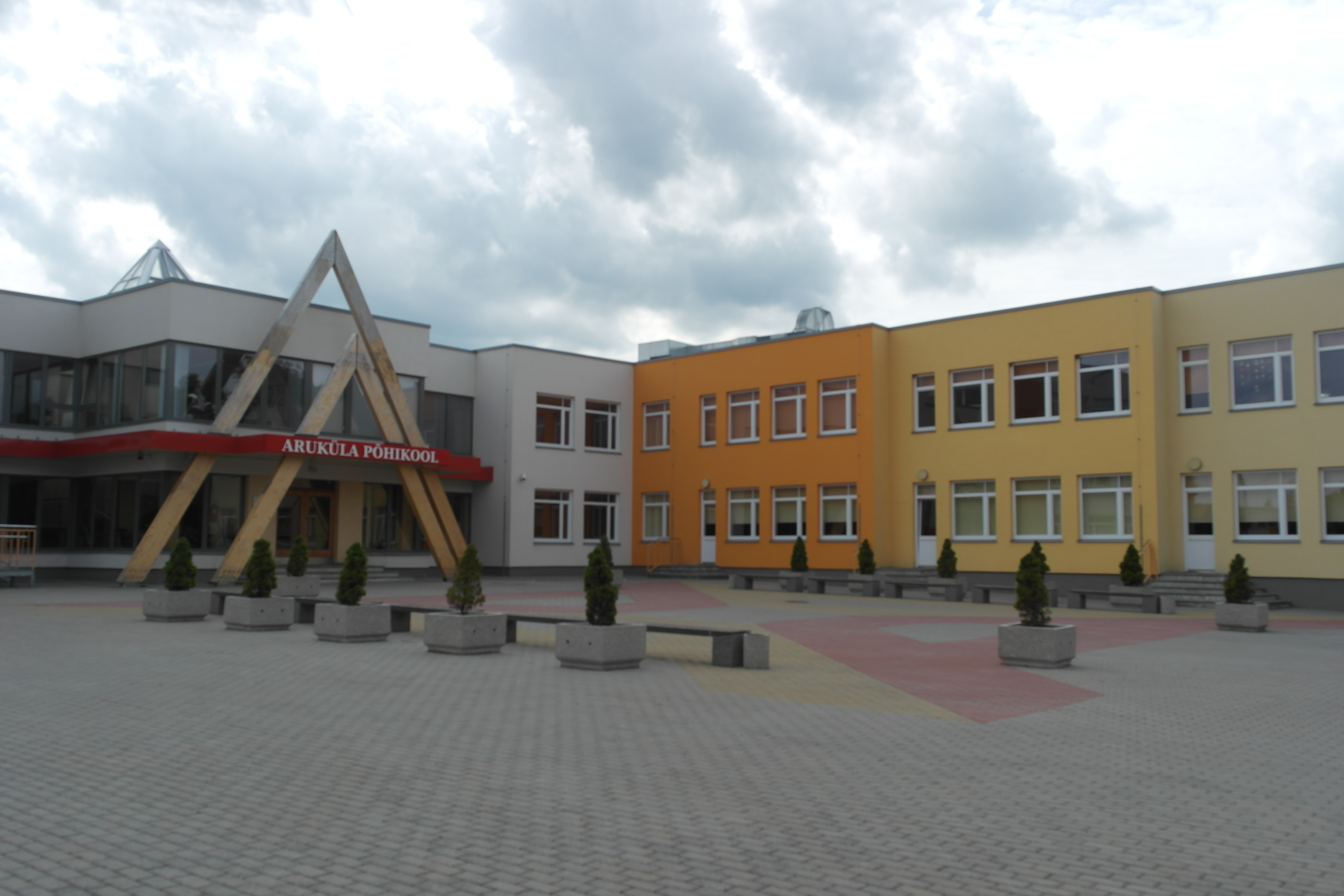 Aruküla Basic School-Summer 2013